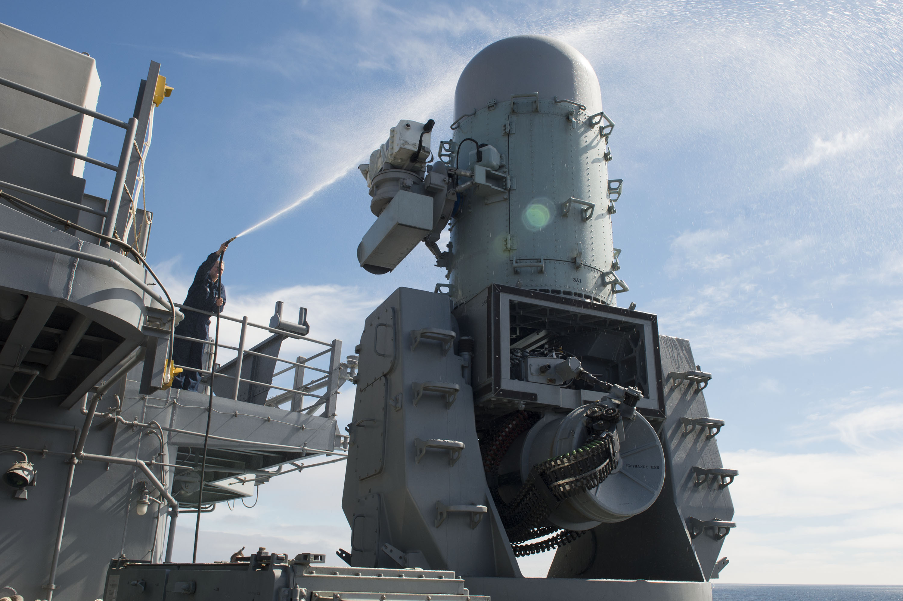 Fire Controlman 3rd Class Megan Anderson, assigned to future amphibious assault ship USS America (LHA 6), washes a close-in weapon system after completing a practice ammunition handling evolution aboard the ship. America is the first ship of its class, replacing the Tarawa-class of amphibious assault ships. As the next generation “big-deck” amphibious assault ship, America is optimized for aviation, capable of supporting current and future aircraft such as the MV-22 Osprey and F-35B Joint Strike Fighter. The ship is scheduled to be ceremoniously commissioned Oct. 11 in San Francisco. (U.S. Navy photo by Mass Communication Specialist 3rd Class Huey D. Younger Jr./Released)